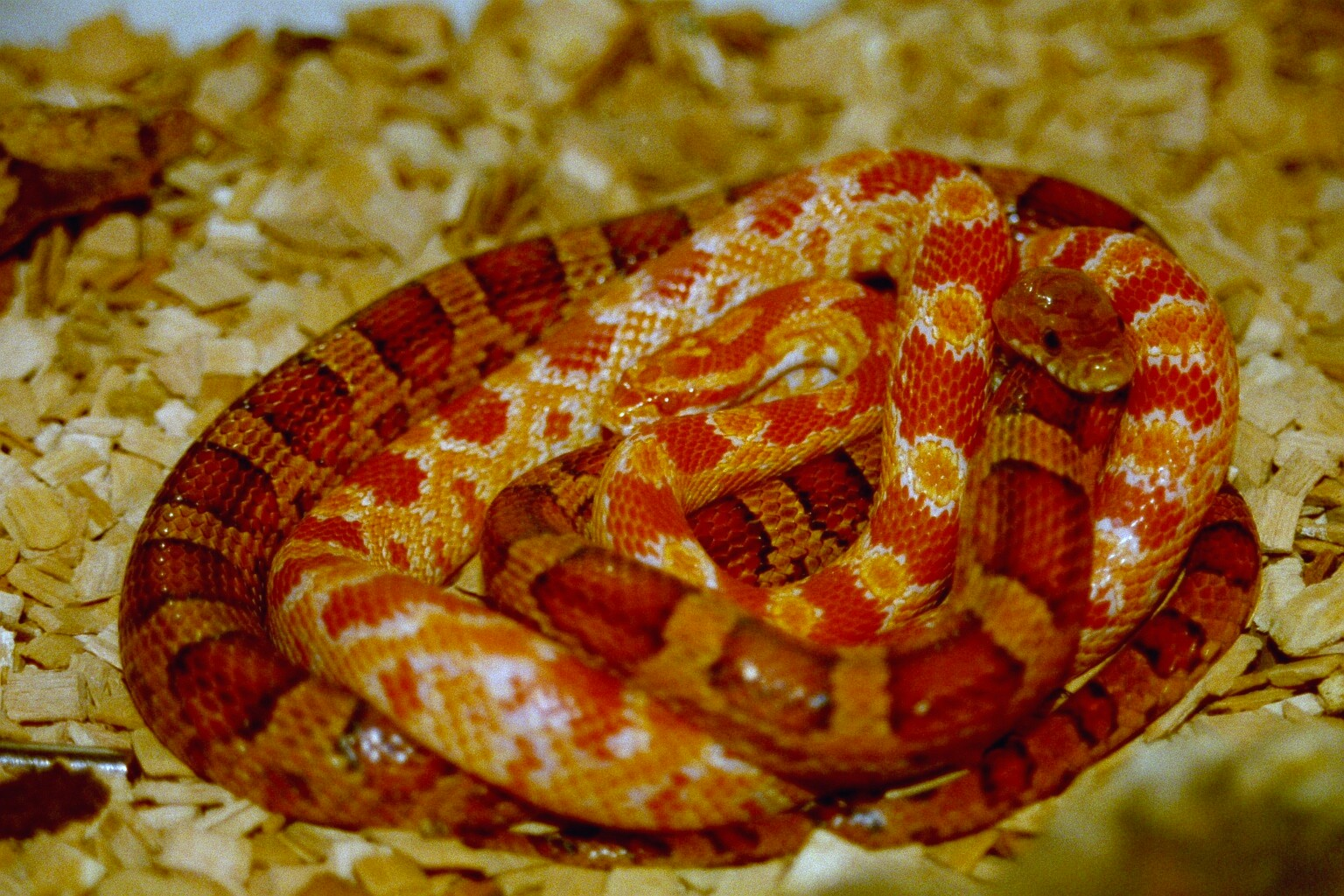 Two corn snakes (Pantherophis guttatus) coiled together, wildtype and amelanistic.